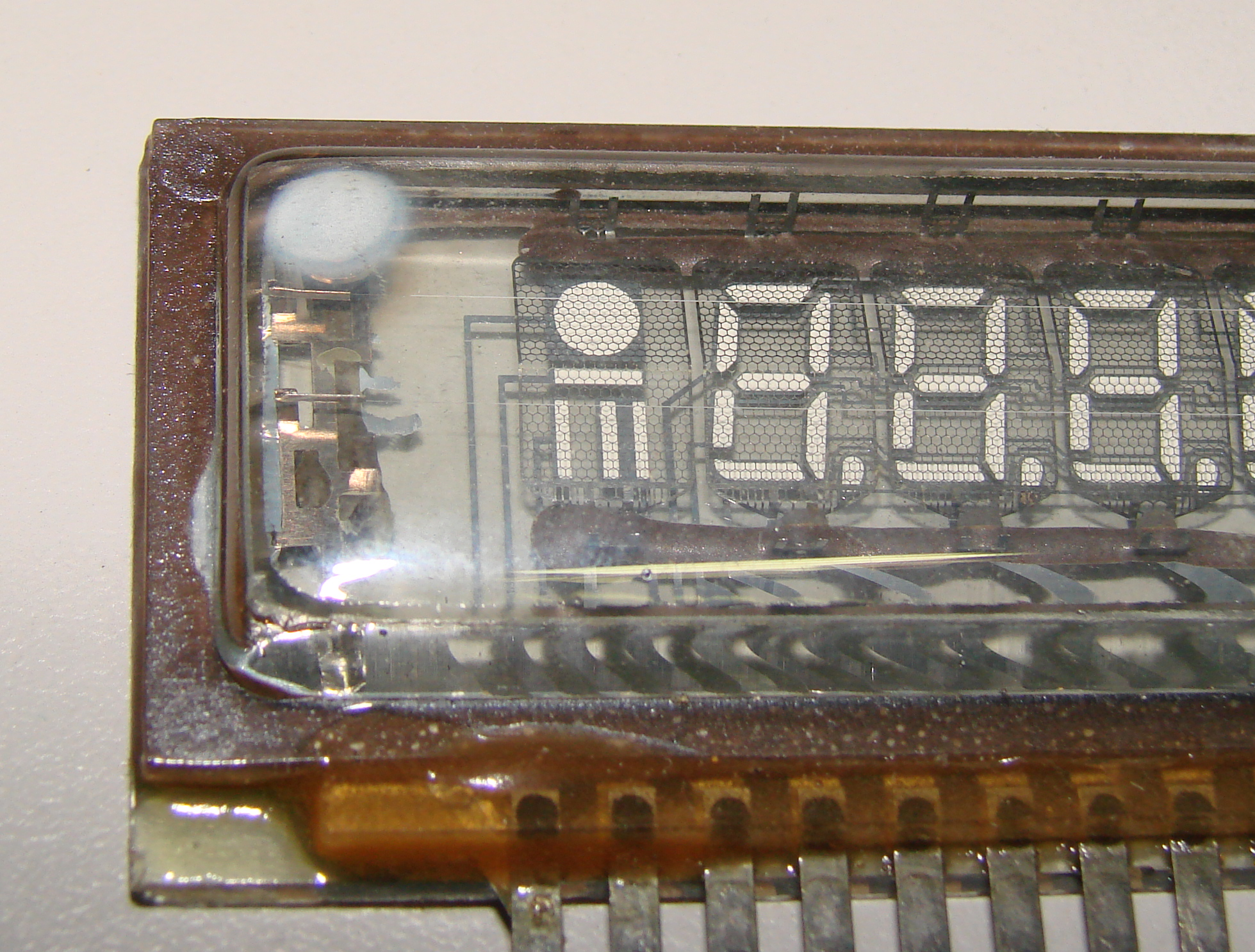 White spot on the dead vacuum luminescent display.